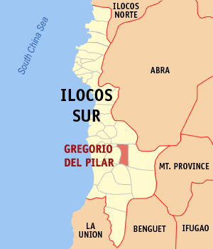 Map of Ilocos Sur showing the location of Gregorio del Pilar